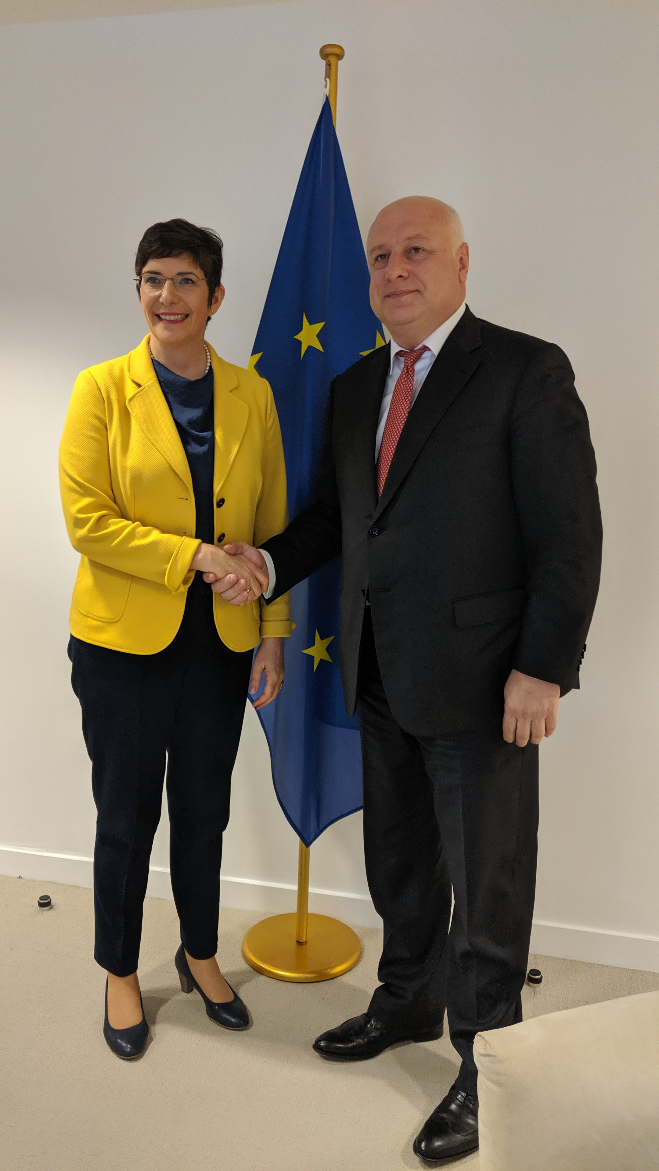 OSCE PA President George Tsereteli and Klara Dobrev, Vice President of the European Parliament, Strasbourg, 23 October 2019